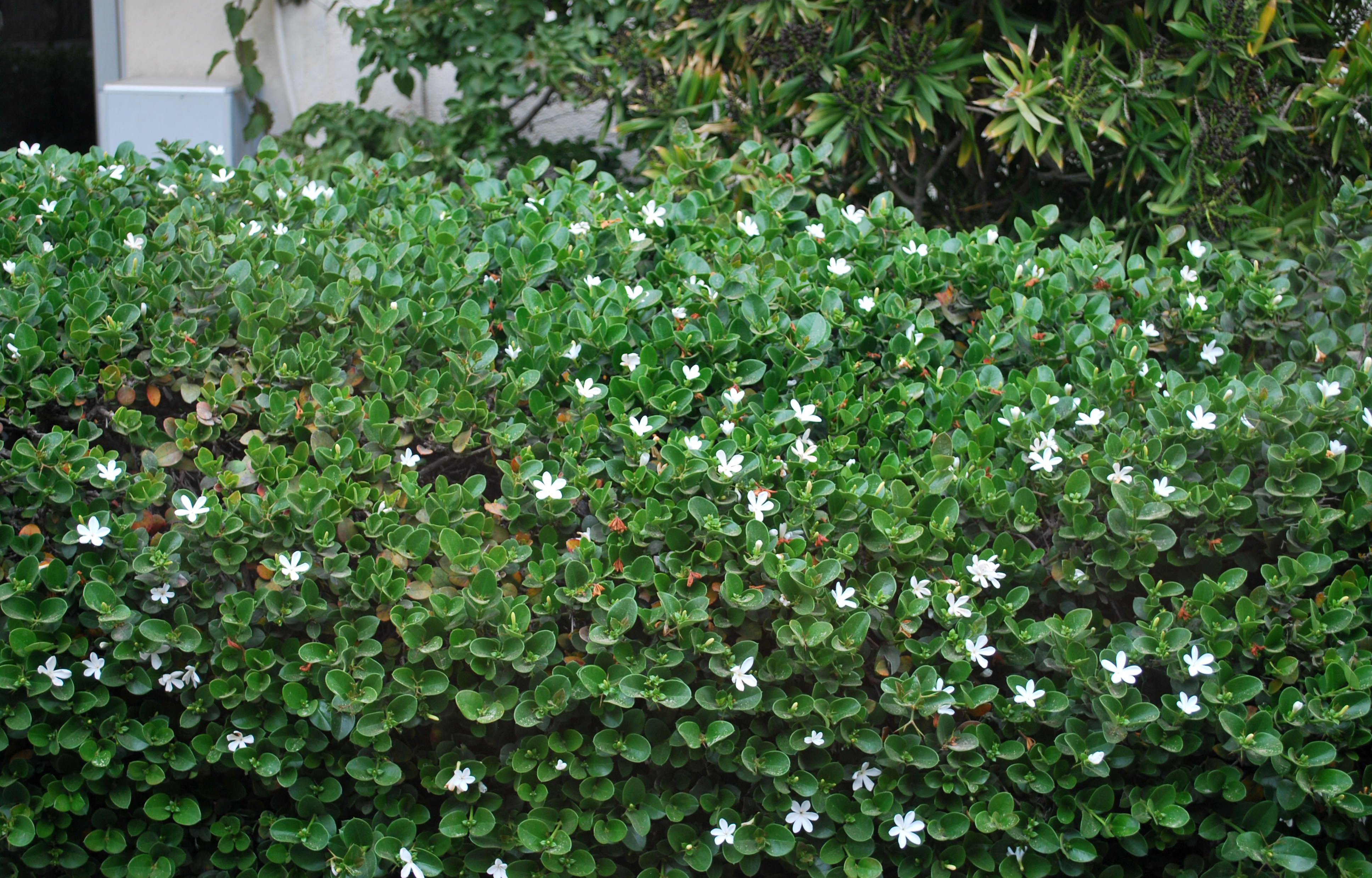 Taken in Jerusalem